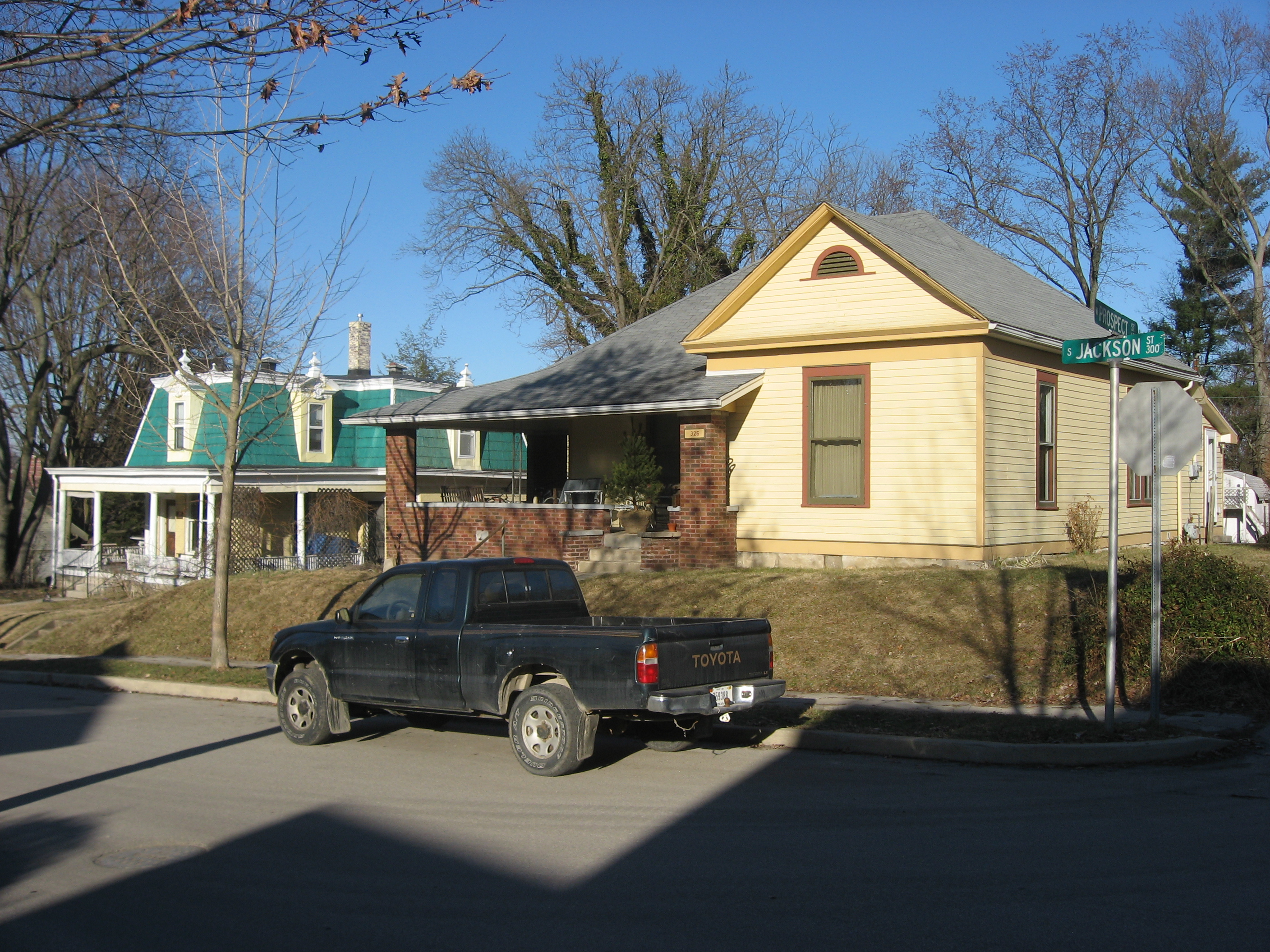 Houses on the northeastern corner of the intersection of Jackson and Prospect Streets in Bloomington, Indiana, United States. These houses are part of the Prospect Hill Historic District, a historic district that is listed on the National Register of Historic Places.